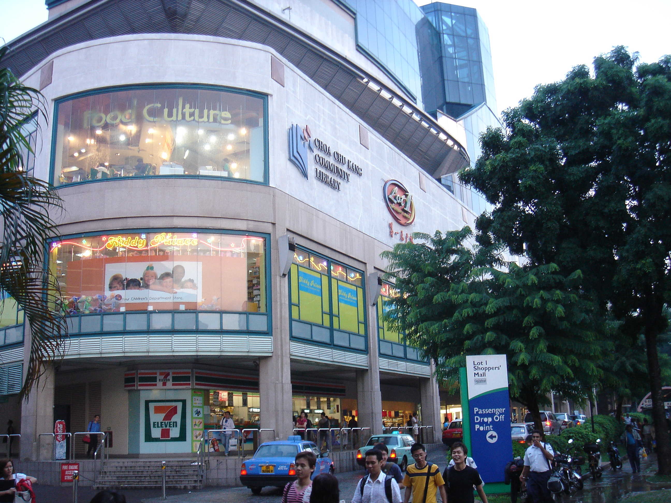 Lot 1 Shopping Centre, Choa Chu Kang Town Centre, Singapore.